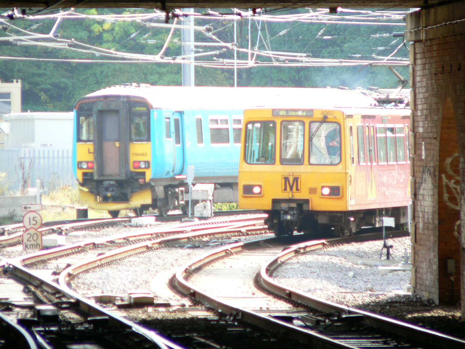 Northern Rail Class 156 DMU 156463 in the siding immediately south of Sunderland station between services to and from Carlisle is passed by Tyne and Wear Metro EMU 4060 en route from South Hylton to St James in Newcastle city centre. This photo shows that the two units are built to different loading guages, although the smaller Metro guage is still significantly larger than that of tube trains on London Underground